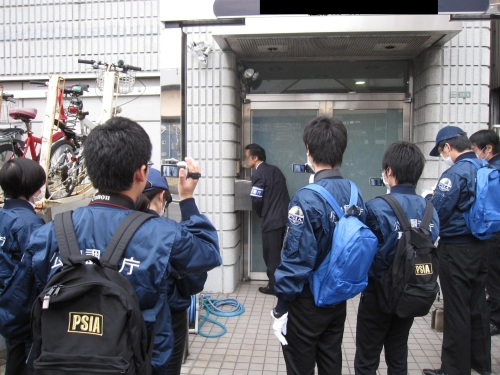 PSIA officers record a visit to a suspect Aum Shinrikyo building.